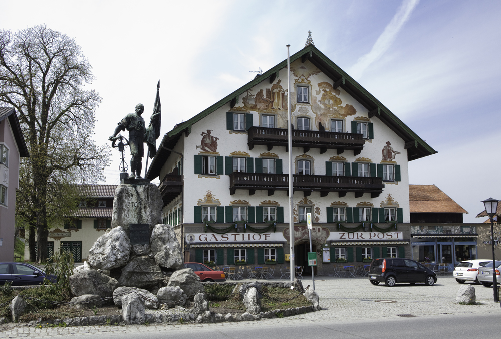 Center of Kochel am See with the monument to Balthes Maier